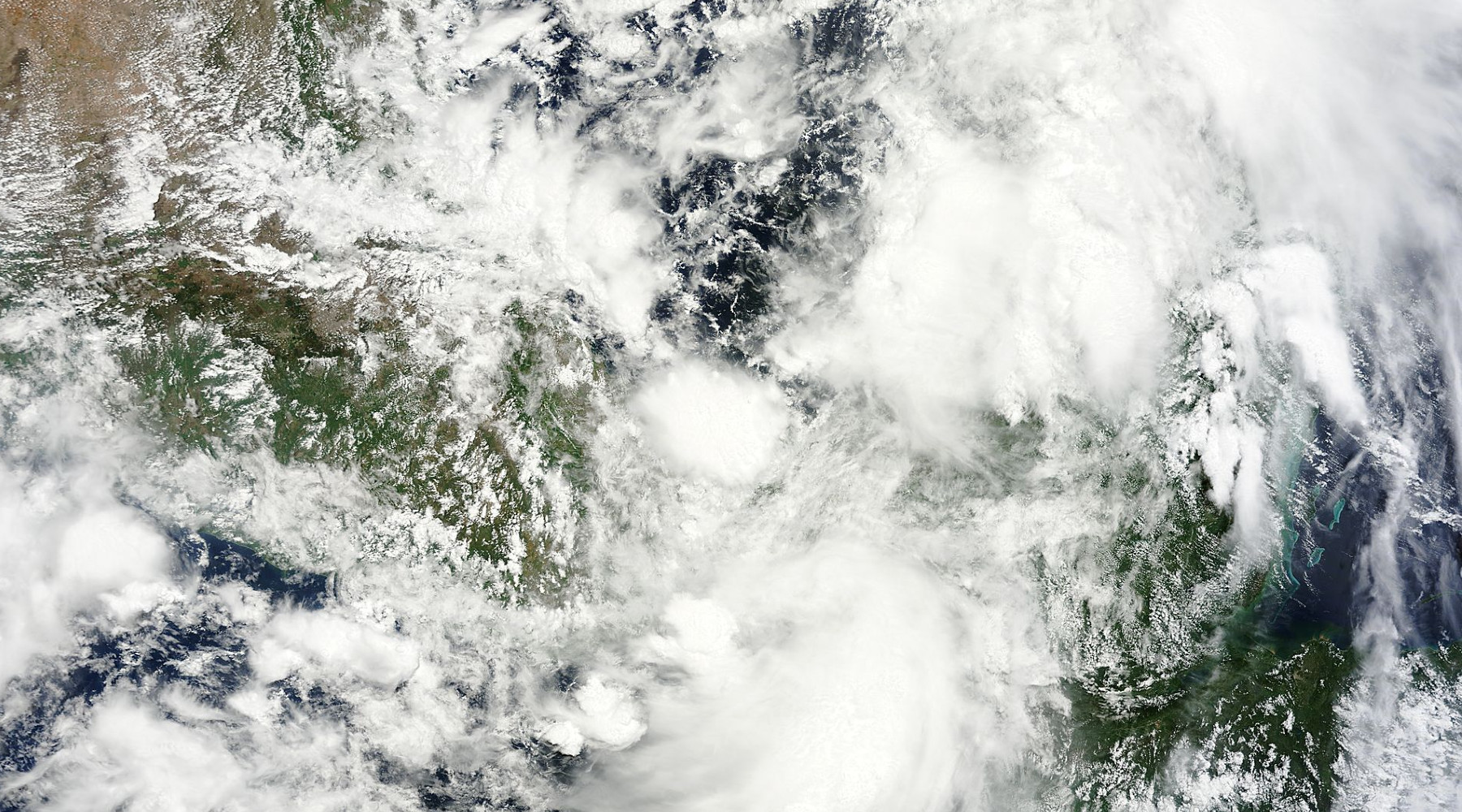 The precursor low to Arlene organizing over the Bay of Campeche on June 28 2011.